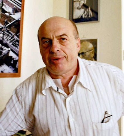 former israeli minister, former political prisoner